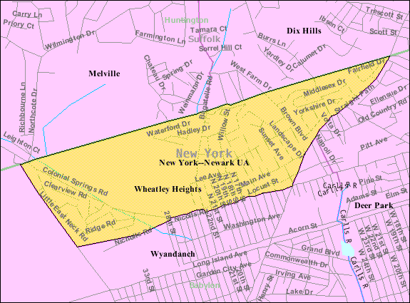 U.S. Census 2000 reference map for Wheatley Heights, New York